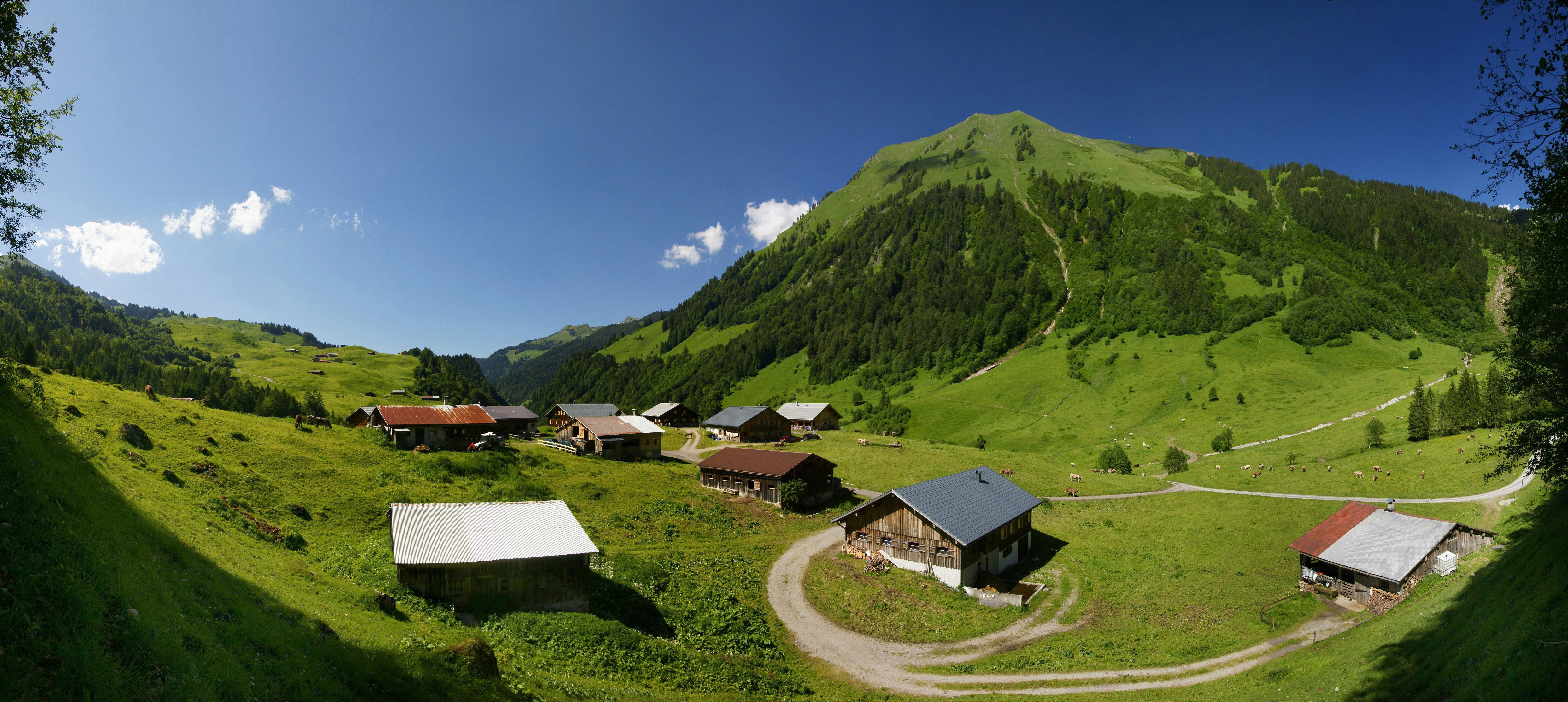 180 ° panorama on the Alps Vorderhopfreben with a view of the higher-lying Alps Schalzbach in Schoppernau. Both settlements are in stage two of the three-stage Transhumance in the Alps. Right in the picture Üntschenspitze 2,135m.